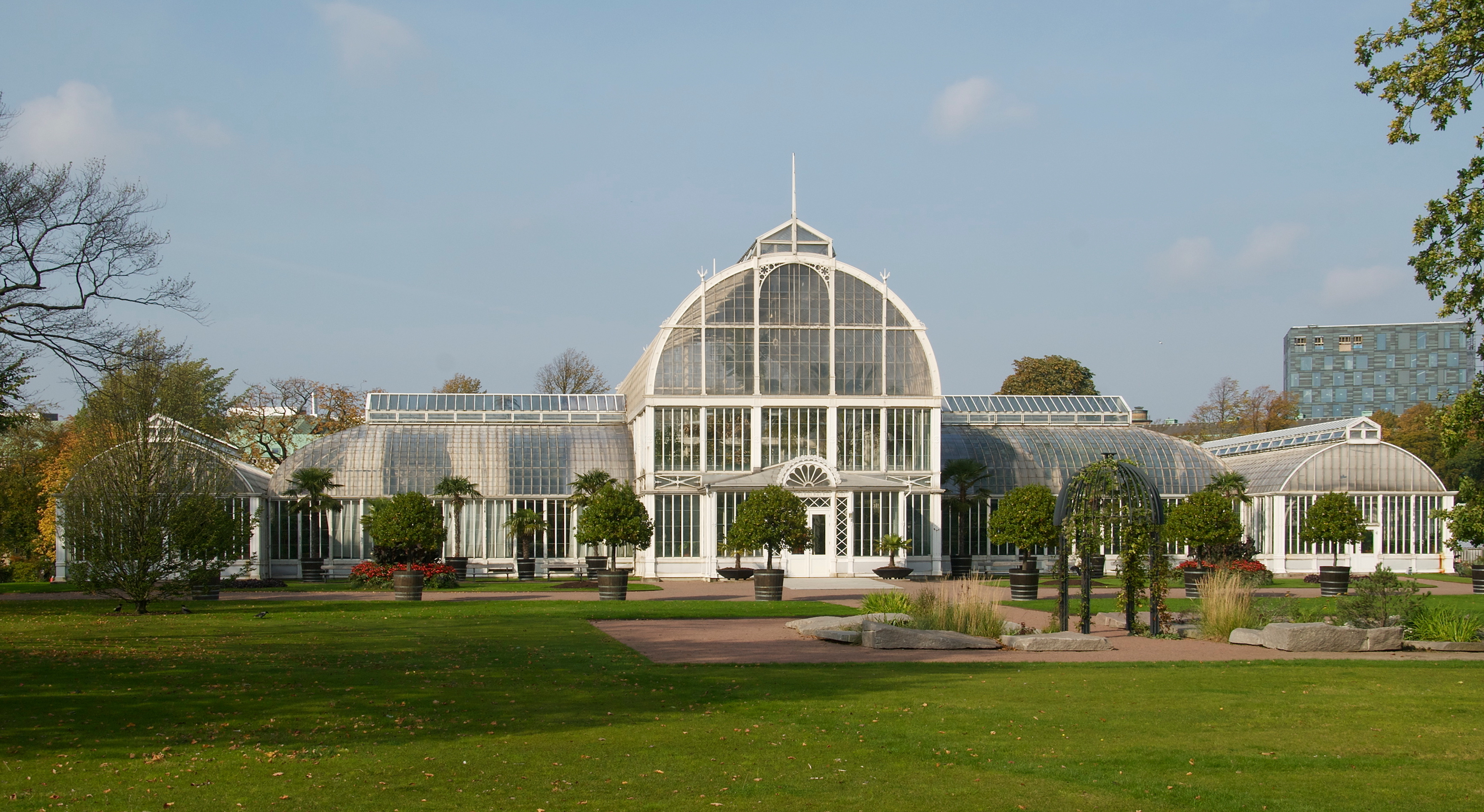 Palmhuset (the palm green house) in Trädgårdsföreningen (The Garden Society of Gothenburg), Gothenburg, Sweden.